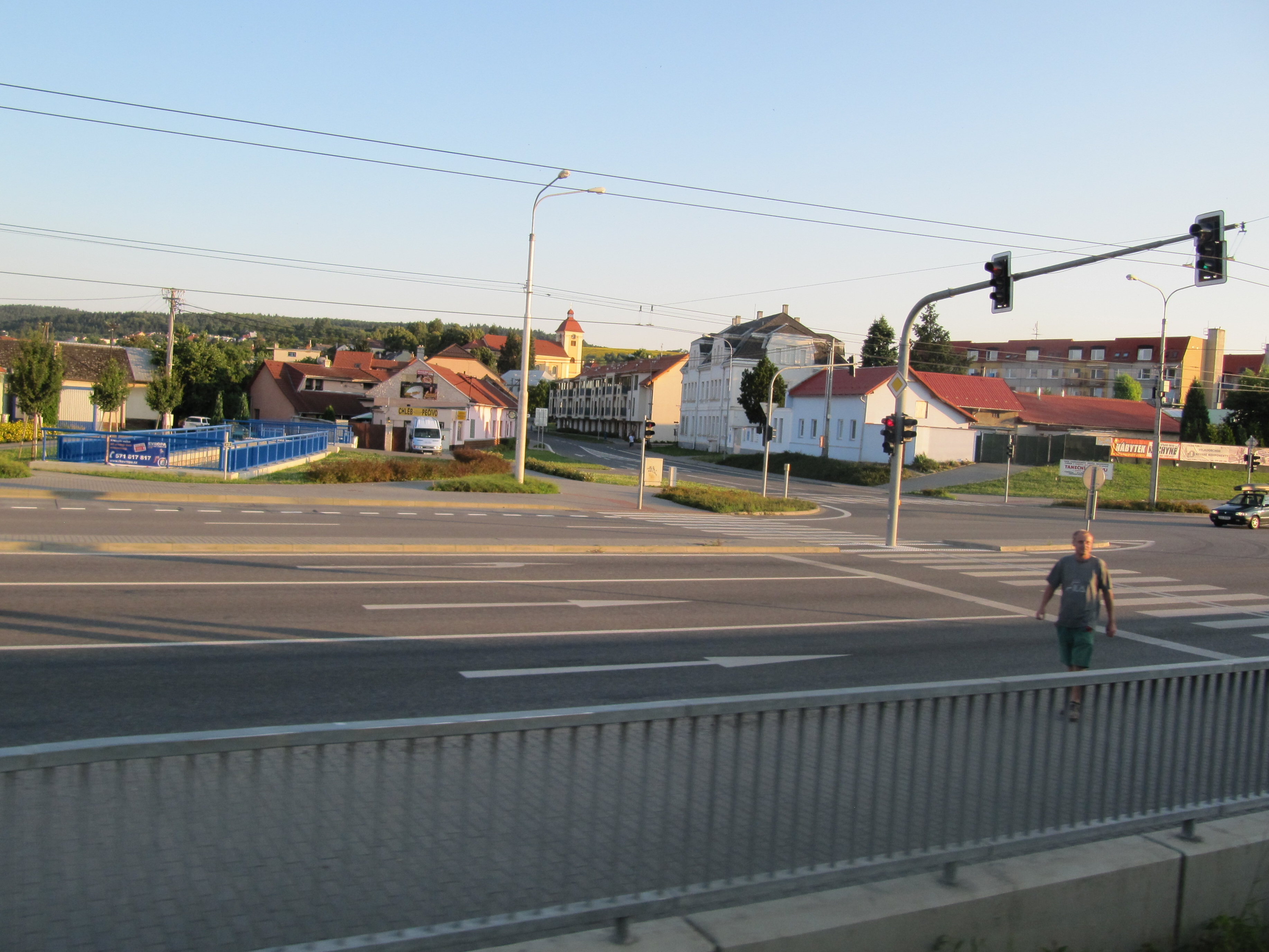 Zlín, Czech Republic, part Malenovice. Main crossroad, church.